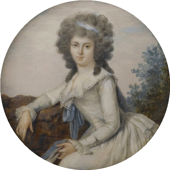 Duchess of Polignac